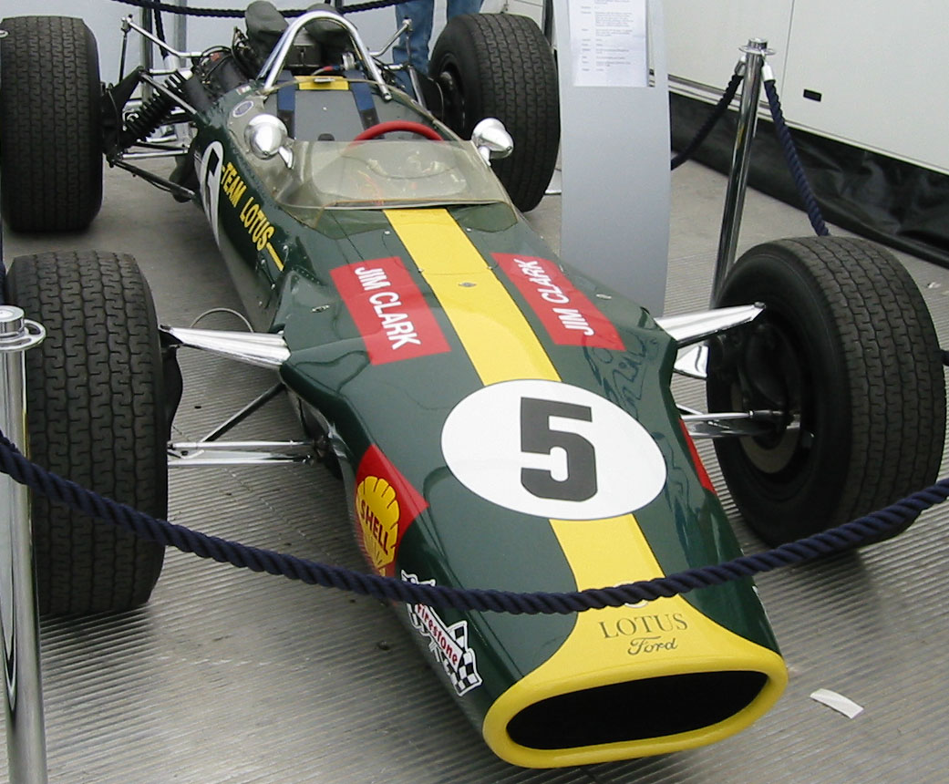 1967 Lotus 49 Ford-Powered F1 car at the 2005 Goodwood Festival of Speed